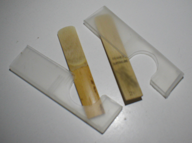 clarinet mouth piece